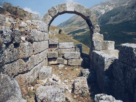 Image from Amantia National Park